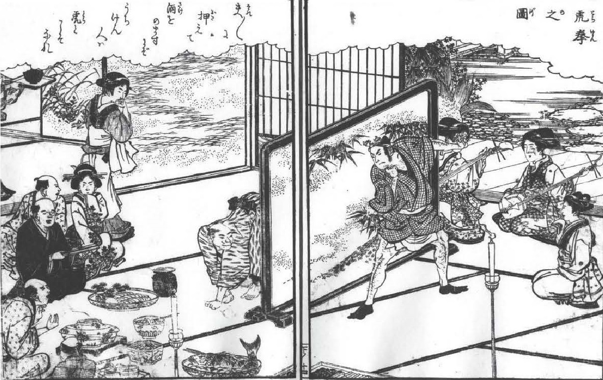 Representation of tora-ken or tiger-ken, an early rock-paper-scissor or sansukumi-ken game. Published in the Kensarae sumai zue by Yoshinami and Gojaku. In this game, the hero Watonai (Koxinga) wins over the tiger, the tiger wins over Watonai's mother, and Watonai's mother wins over Watonai. The man to the left of the screen is in the position of the tiger and the man on the right is in the position of Watonai.